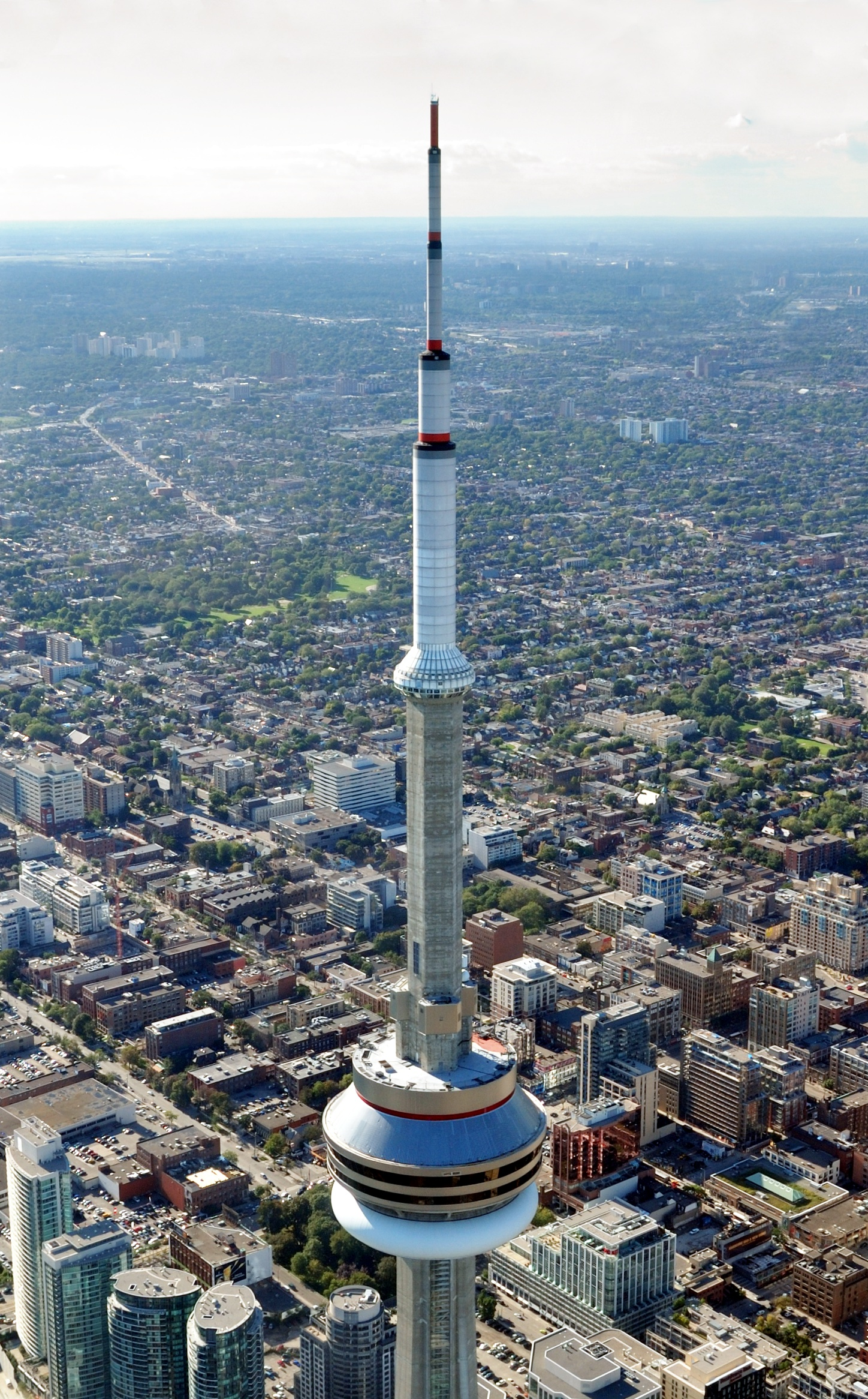 Toronto: Aerial view of main pod and antenna of the CN Tower from helicopter